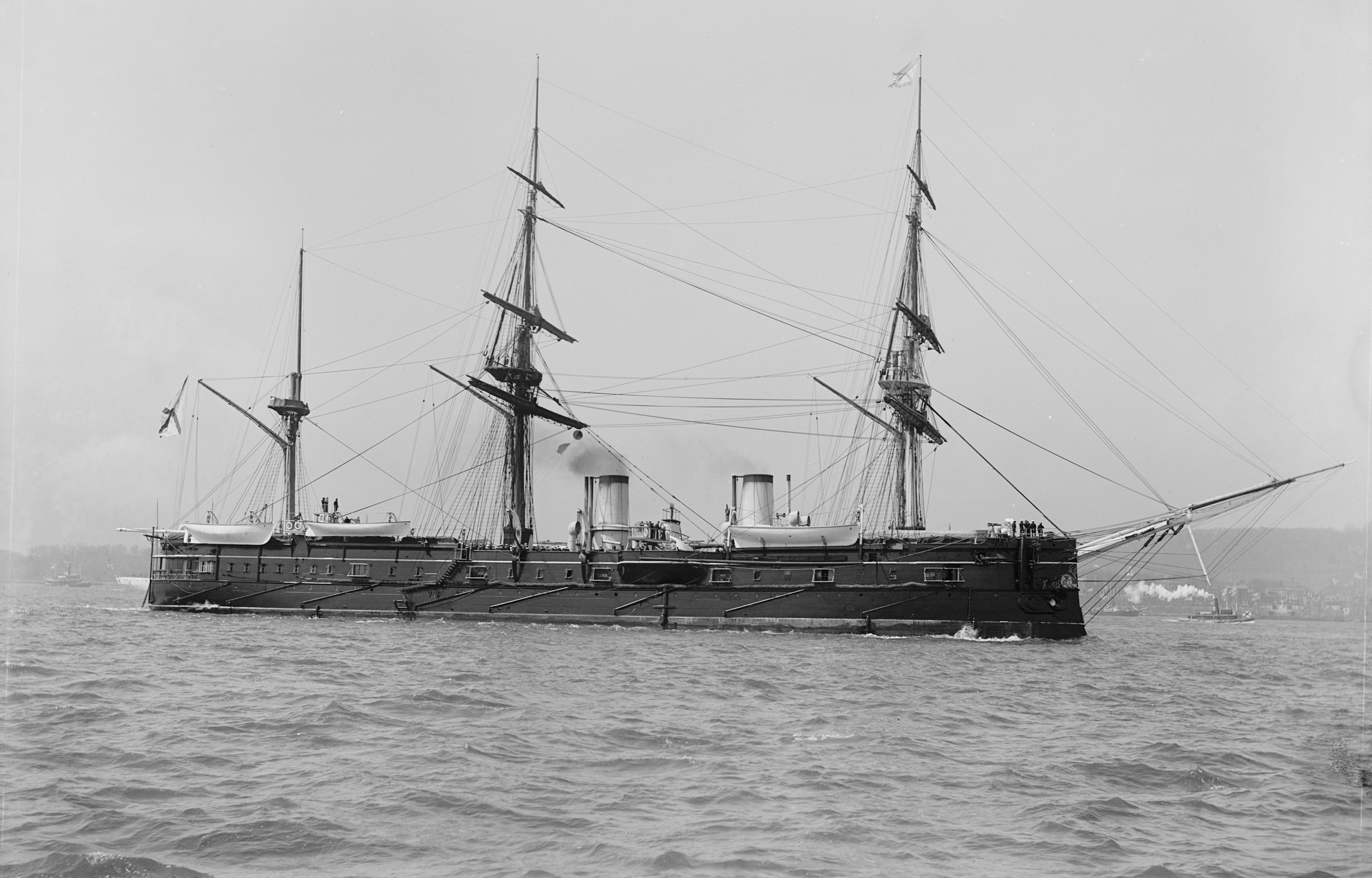 The Imperial Russian armoured frigate Dmitriy Donskoy at New York Harbor, 27 April 1893.